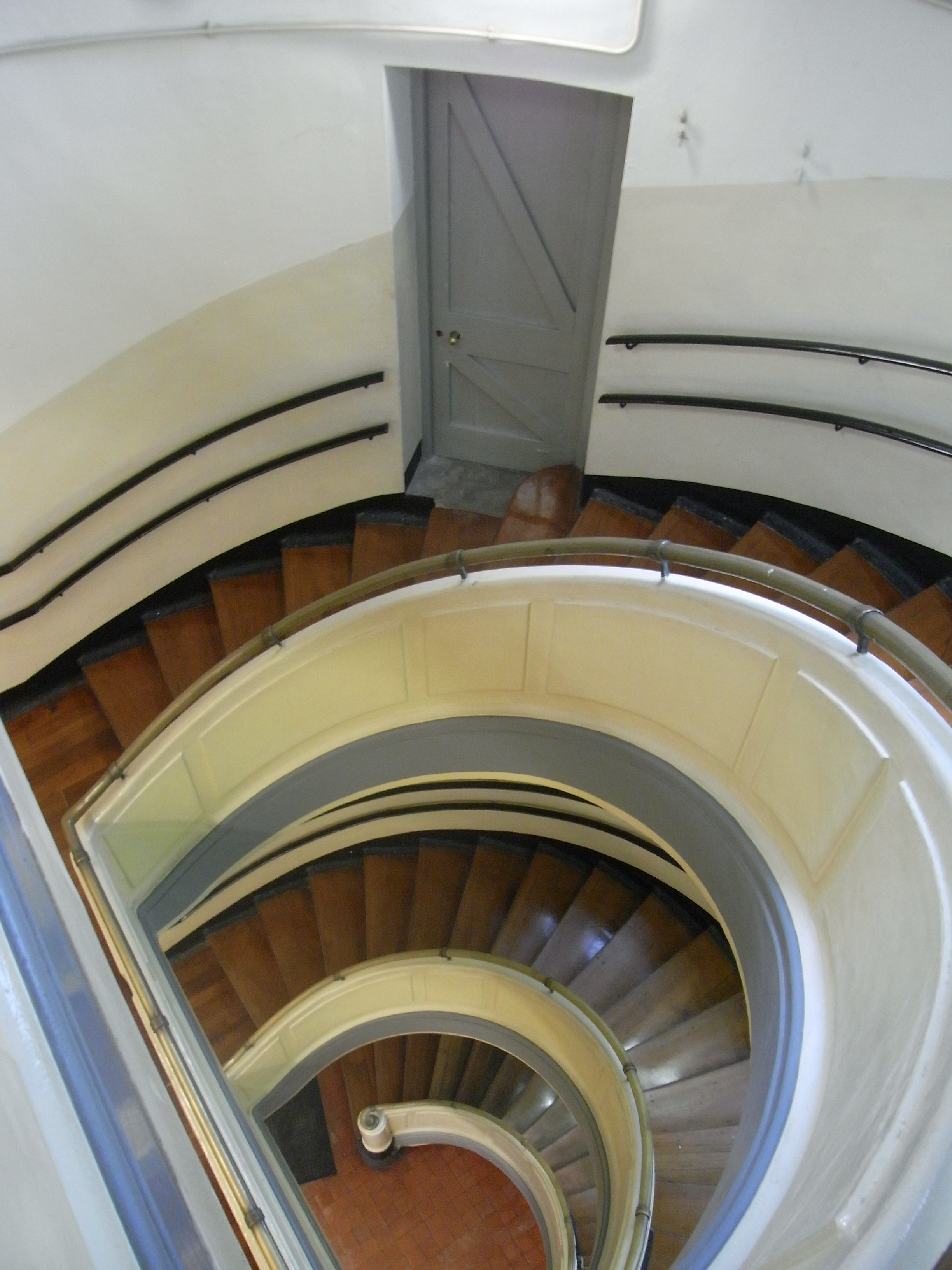 西邊街